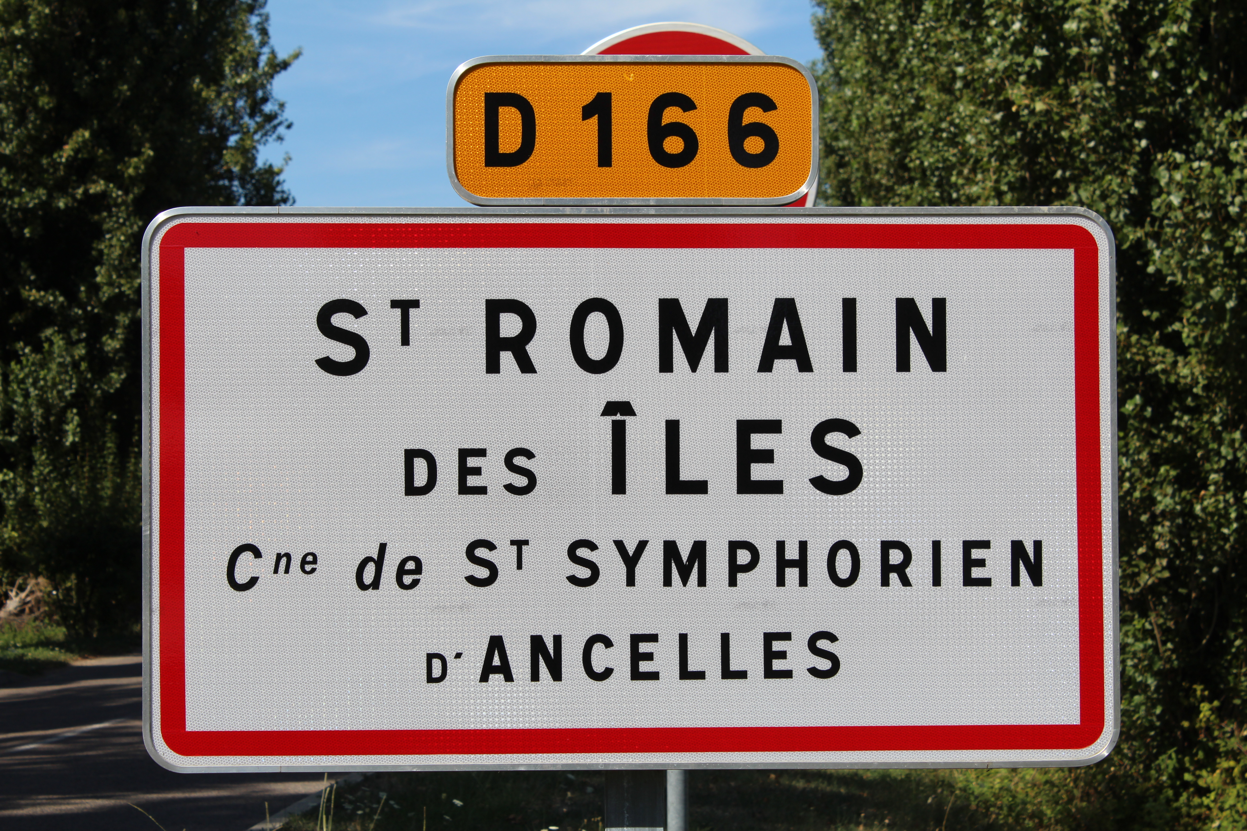 City limit sign of Saint-Romain-des-Îles in the commune of Saint-Symphorien-d'Ancelles, Saône-et-Loire, France.